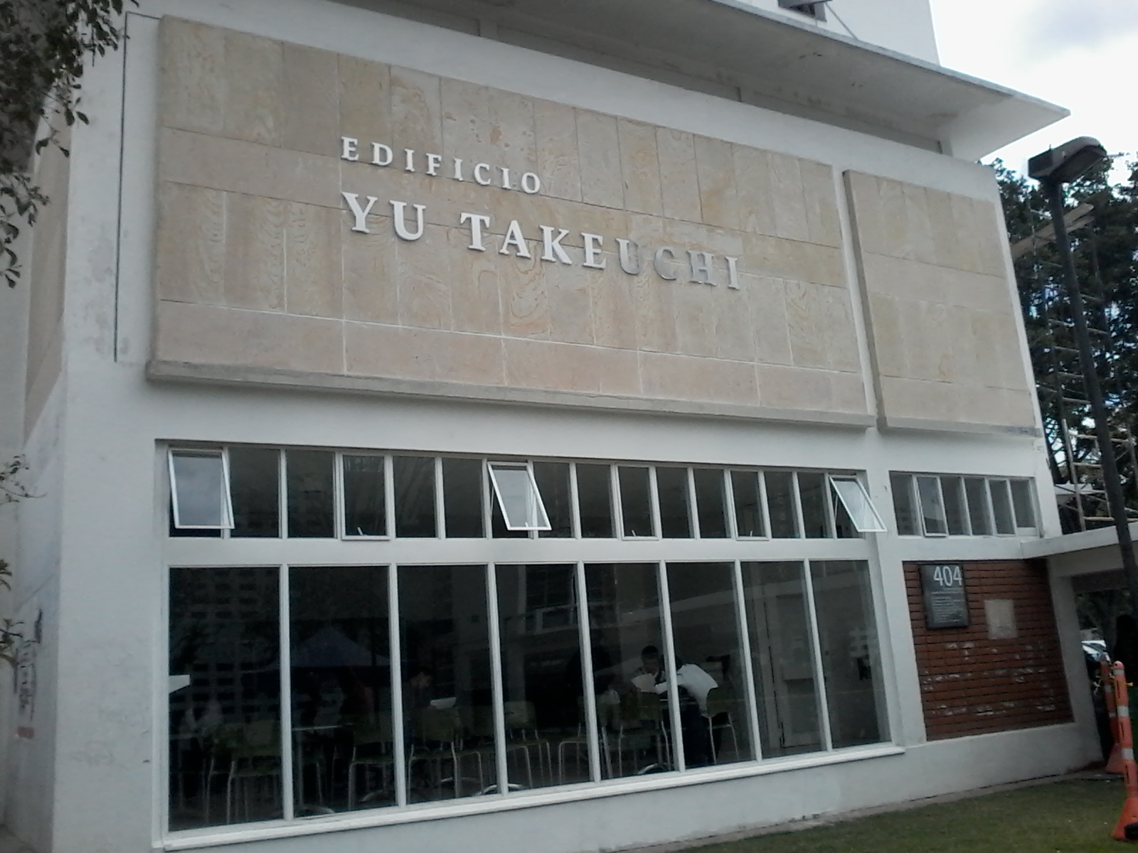 Building dedication in honor of Yu Takeuchi, Bogotá - Colombia